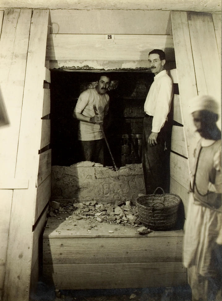 Harry Burton: Tutankhamun tomb photographs: a photographic record in 5 albums containing 490 original photographic prints ; representing the excavations of the tomb of Tutankhamun and its contents. Vol. 4